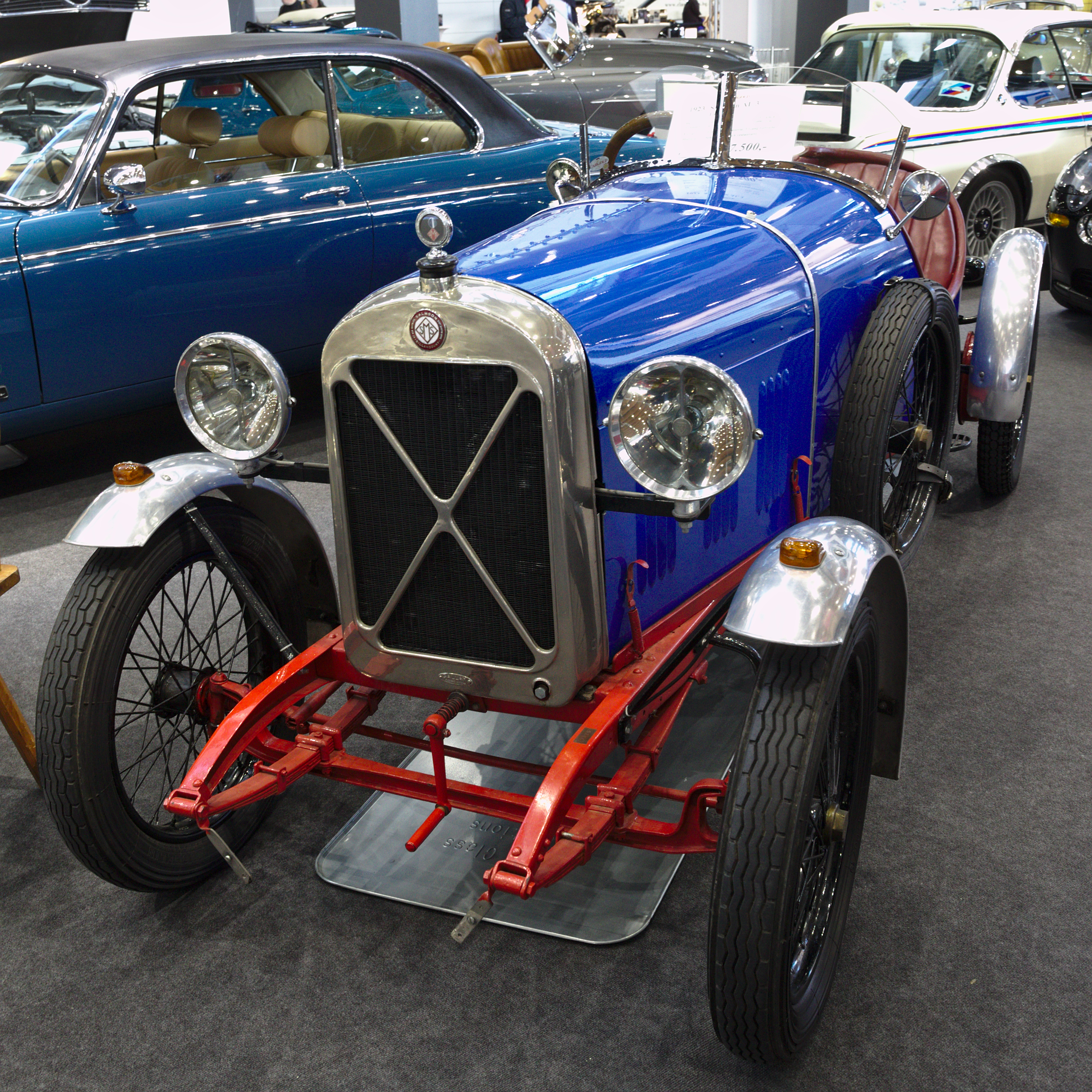 Salmson AL 3 at Retro Classics 2019